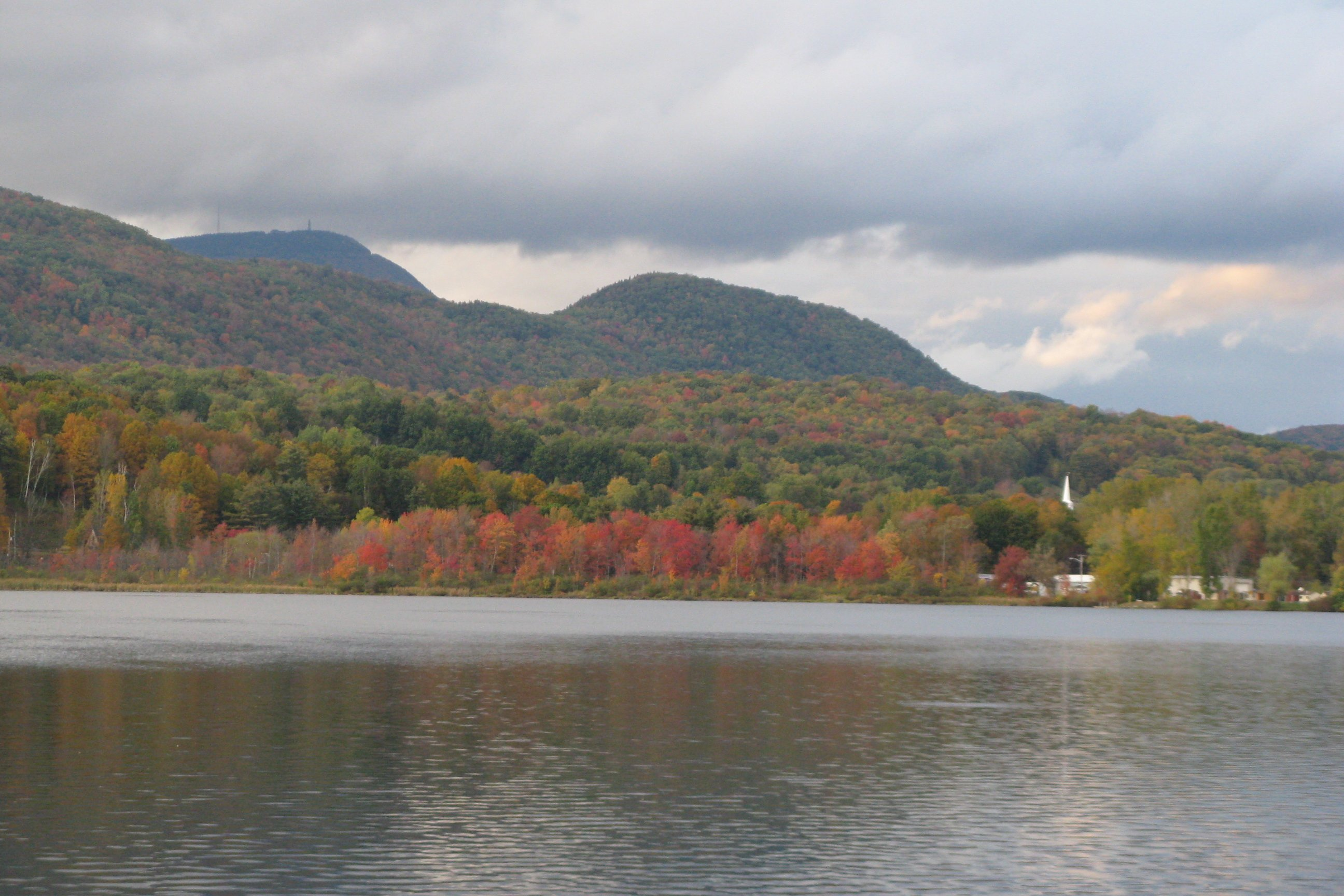 Cheshire Reservoir, Cheshire Massachusetts - View of Mt. Greylock in the distance